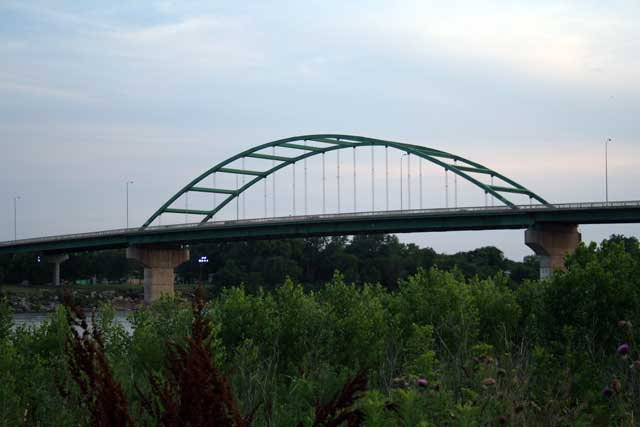 Veteran's Memorial Bridge linking Sioux City, IA and South Sioux City, NE